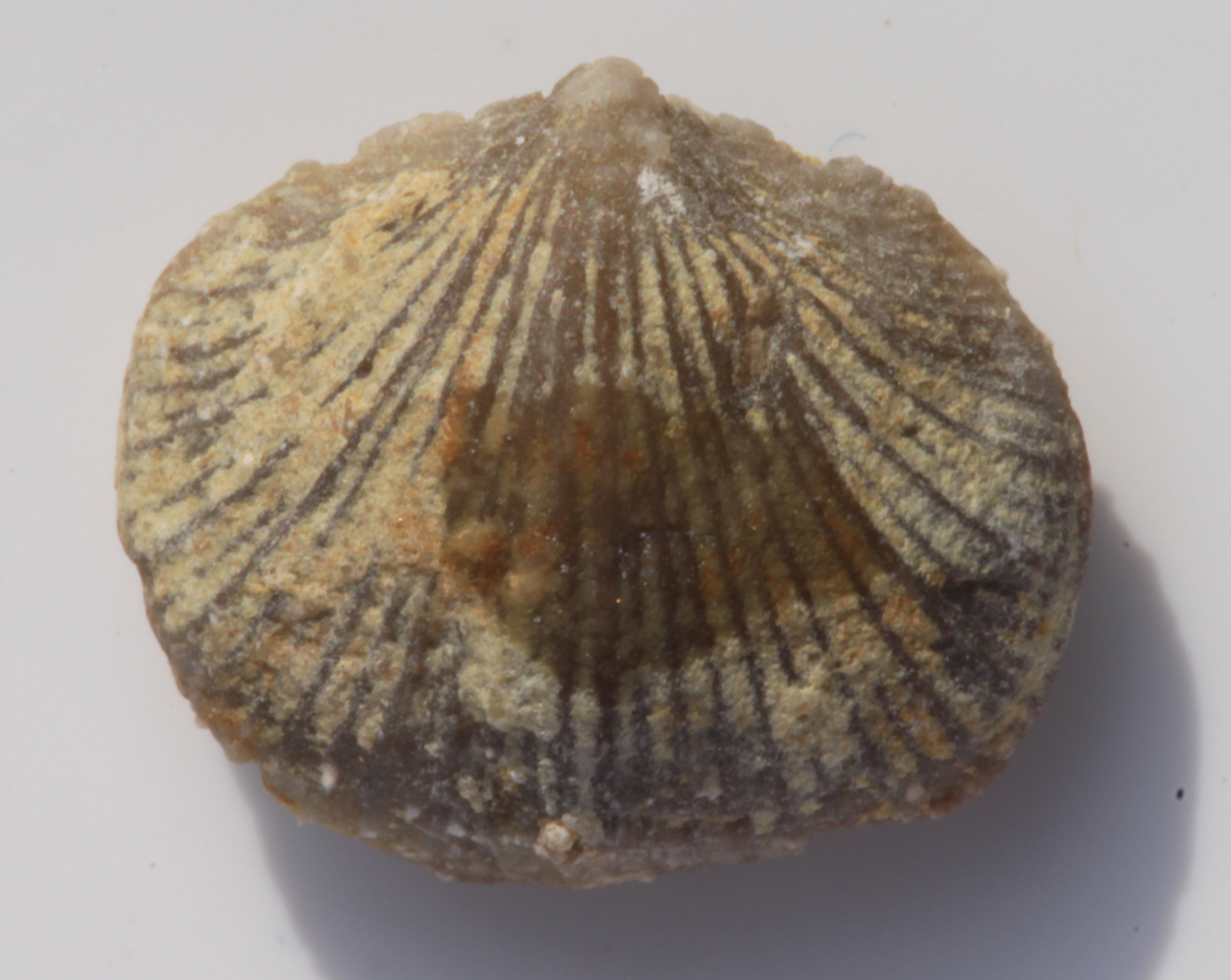 Presumably a lampshell of the genus Paucicrura, 11mm, from Shell Falls, Big Horn, Wyoming, USA, Ordovician